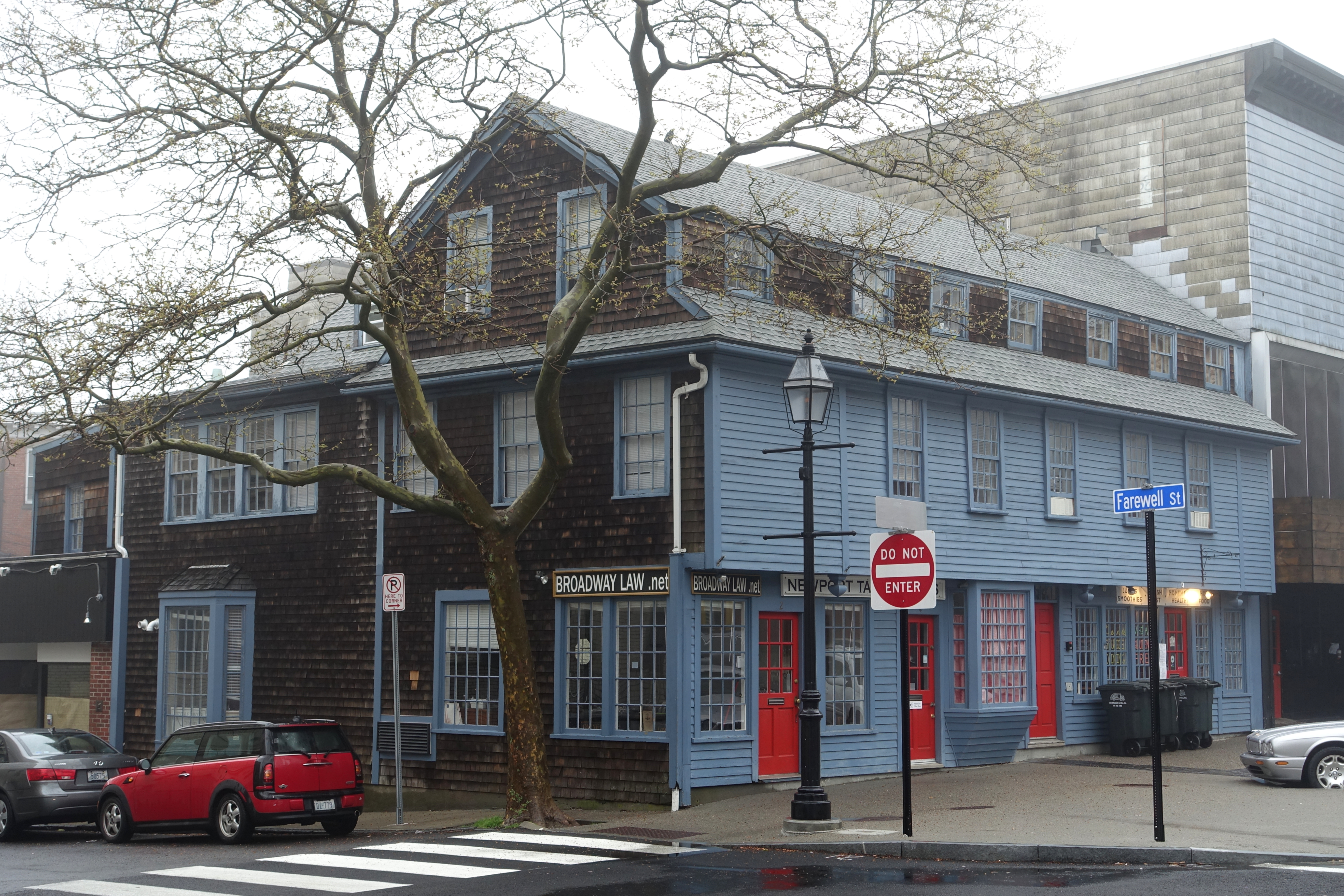 Governor Peleg Sanford House, before 1700 - Newport, Rhode Island, USA.